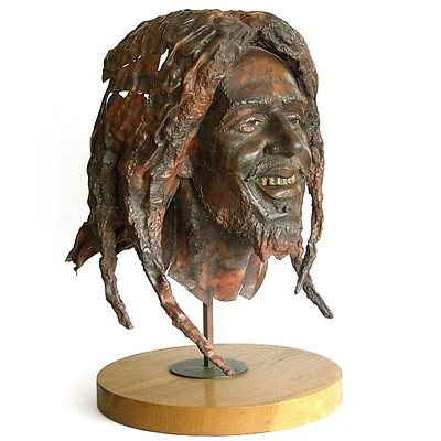 Laszlo Szlavics Jr.: Bob Marley